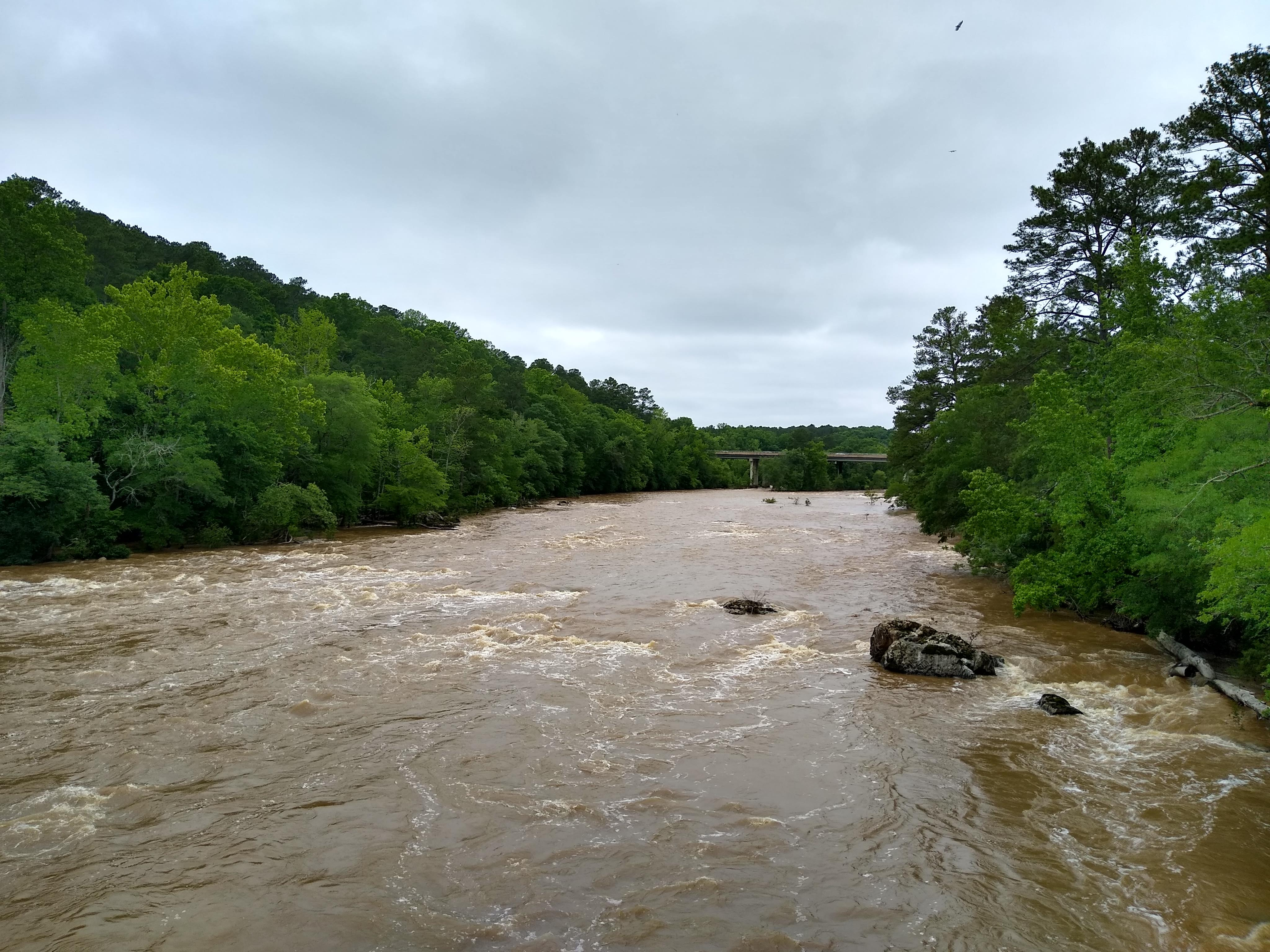 View from Bynum Bridge over the Haw River in Bynum, Chatham County, North Carolina. Built in 1922 by the North Carolina State Highway Commission, now a pedestrian bridge.